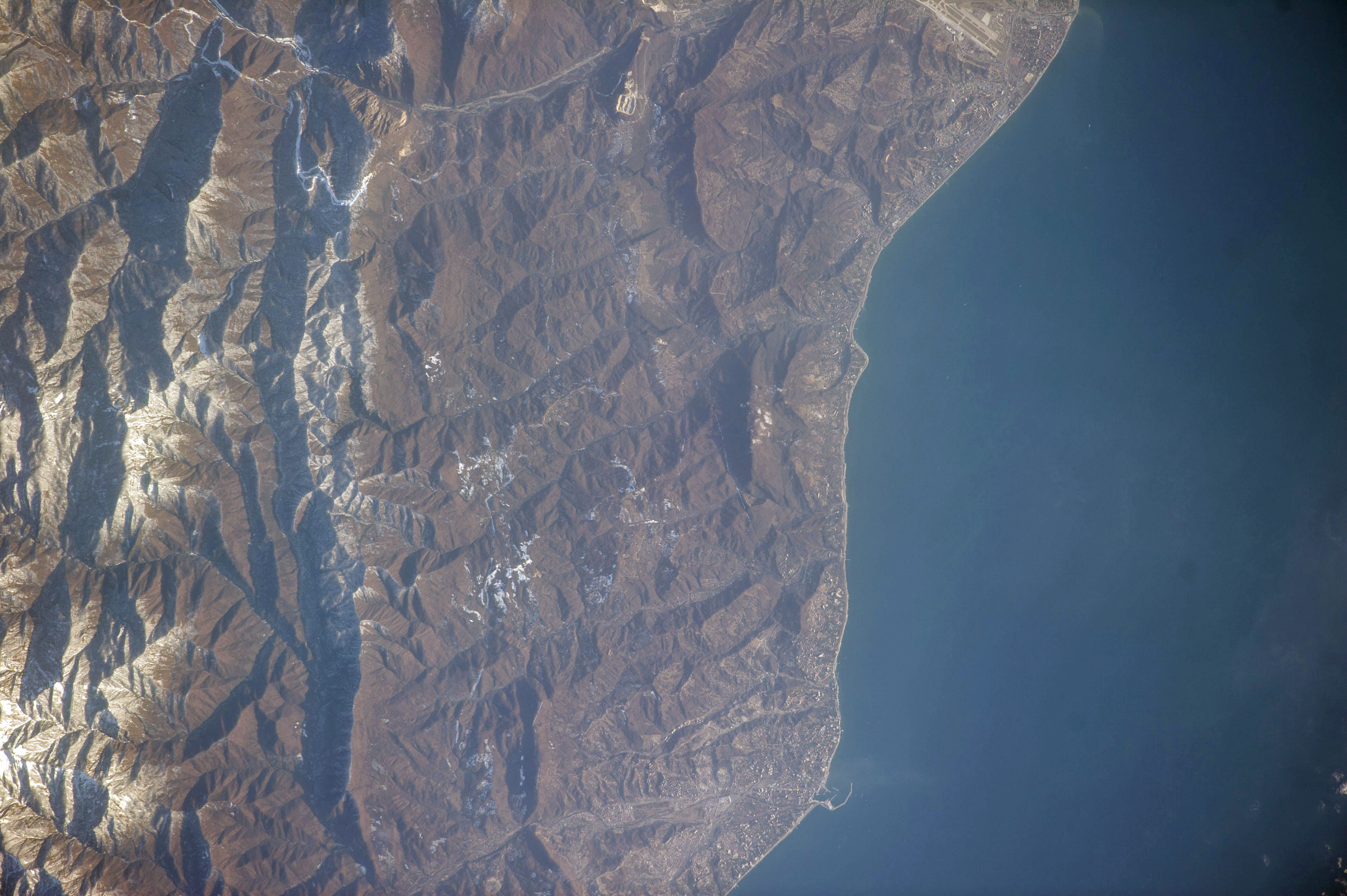 One of the Expedition 38 crew members aboard the International Space Station used a 400mm lens to expose this vertical view of the general area of the 2014 Winter Olympics. Sochi is a city in Krasnodar Krai, Russia, located on the Black Sea coast near the border between Georgia/Abkhazia and Russia. It has an area of 1,353 square miles or 3,505 square kilometers.